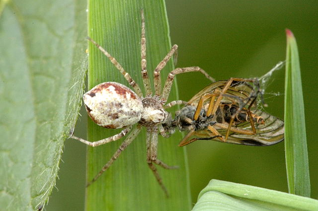 Philodromus sp. with prey, from Commanster, Belgian High Ardennes .